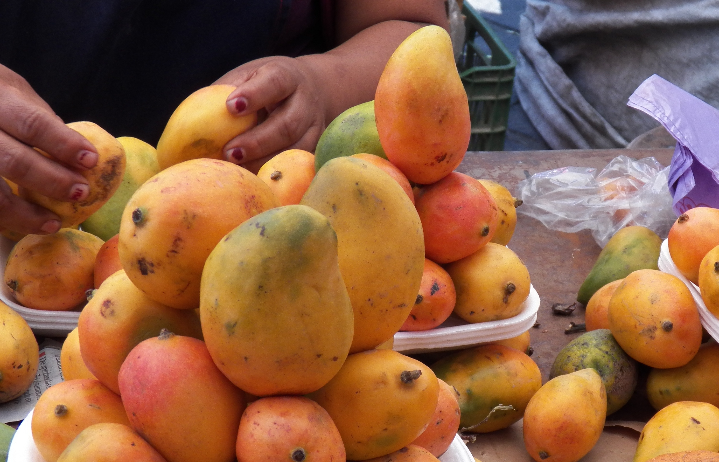 Creole Mangos from Oaxaca, Mexico